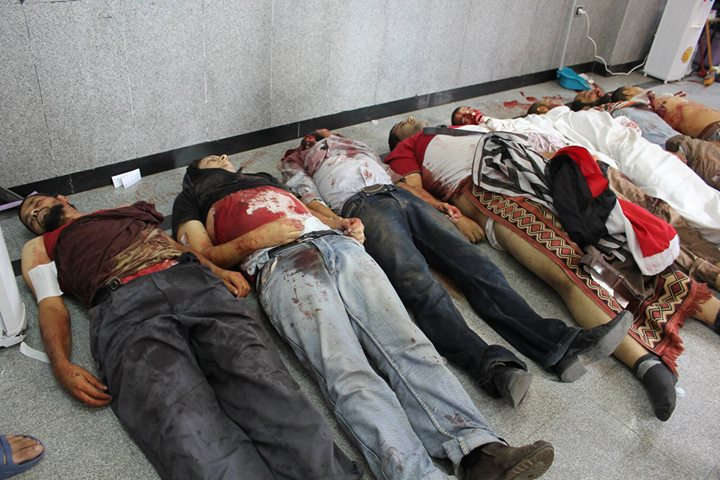 dead bodies in RABIA Massacre